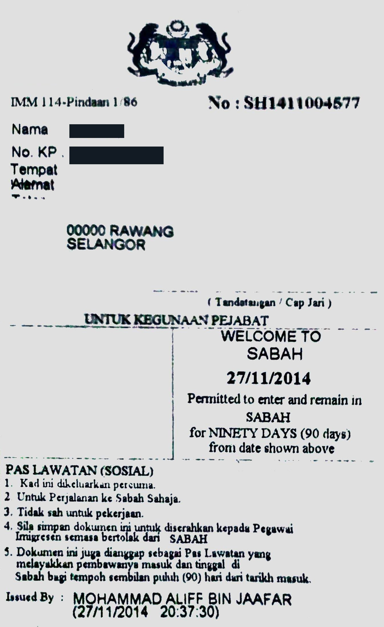 ㅤㅤㅤㅤㅤㅤ